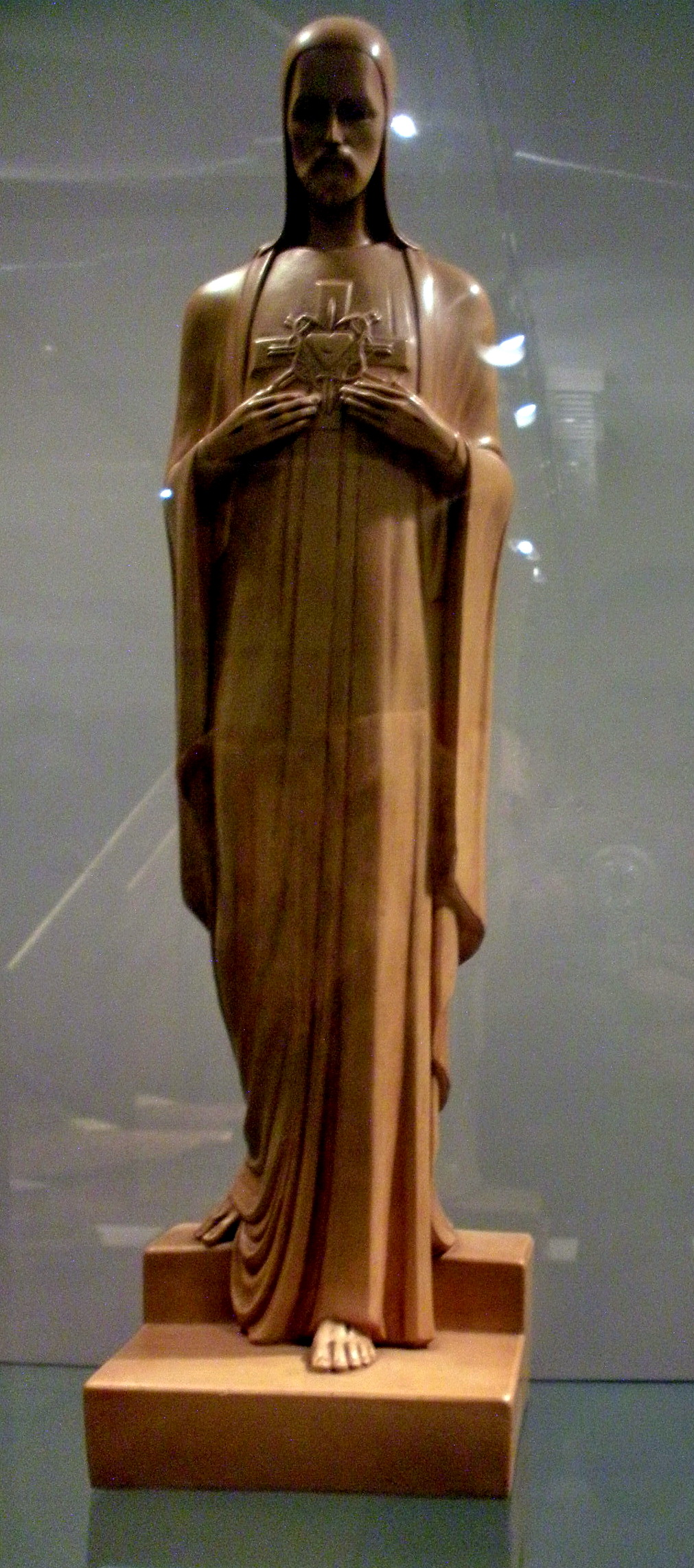 Uden, the Netherlands, Museum of Religious Art.Ceramic statuette of the Sacred Heart of Jesus Christ, designed by Gerard Hack in 1923.